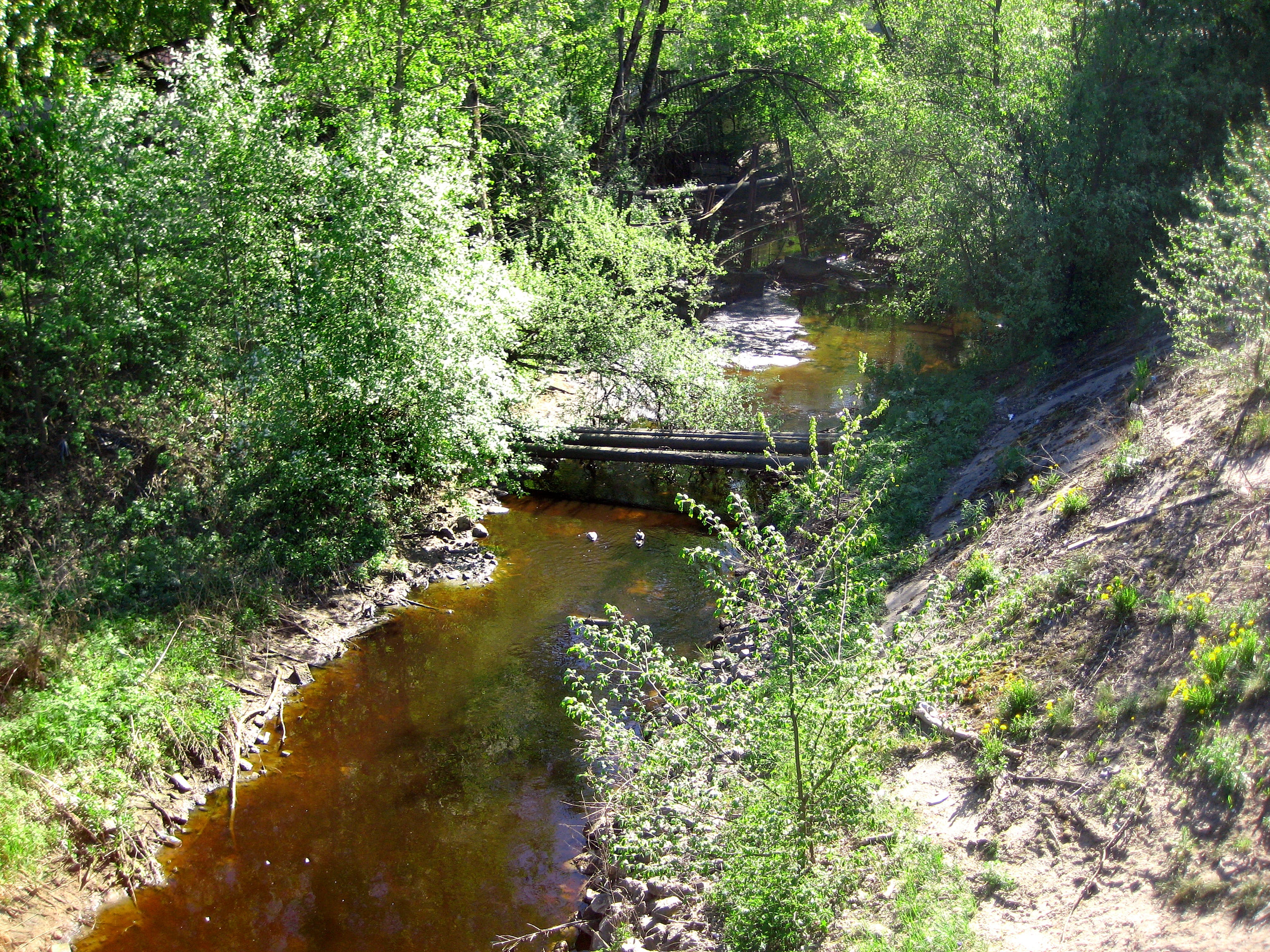 Otradnoe (Leningrad region). River Svyatka